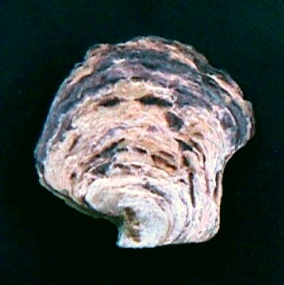 Isognomon alatus (Bivalvia: Pterioida) del Golfo de Cariaco, estado Sucre.